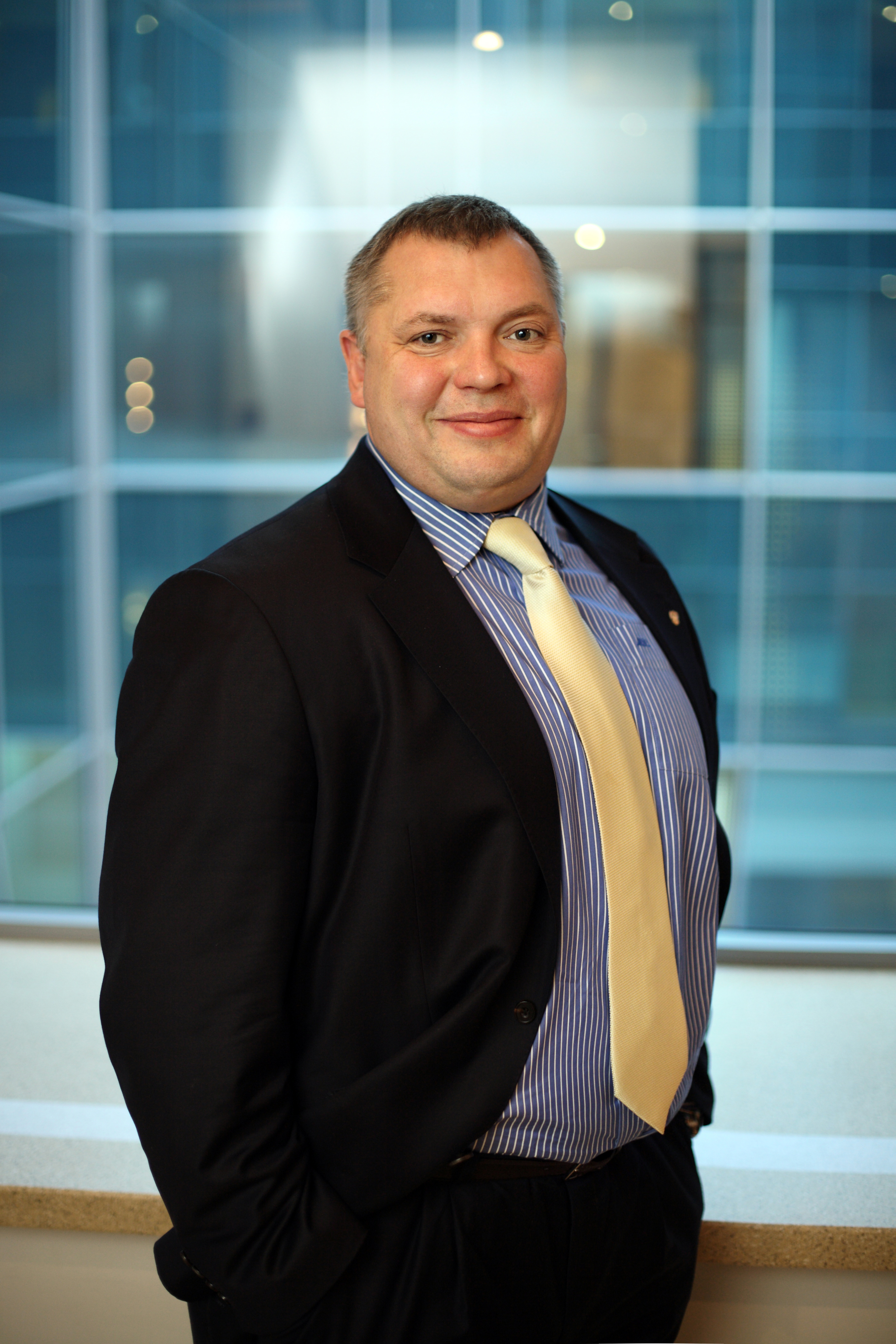 Mikhail Slipenchuk